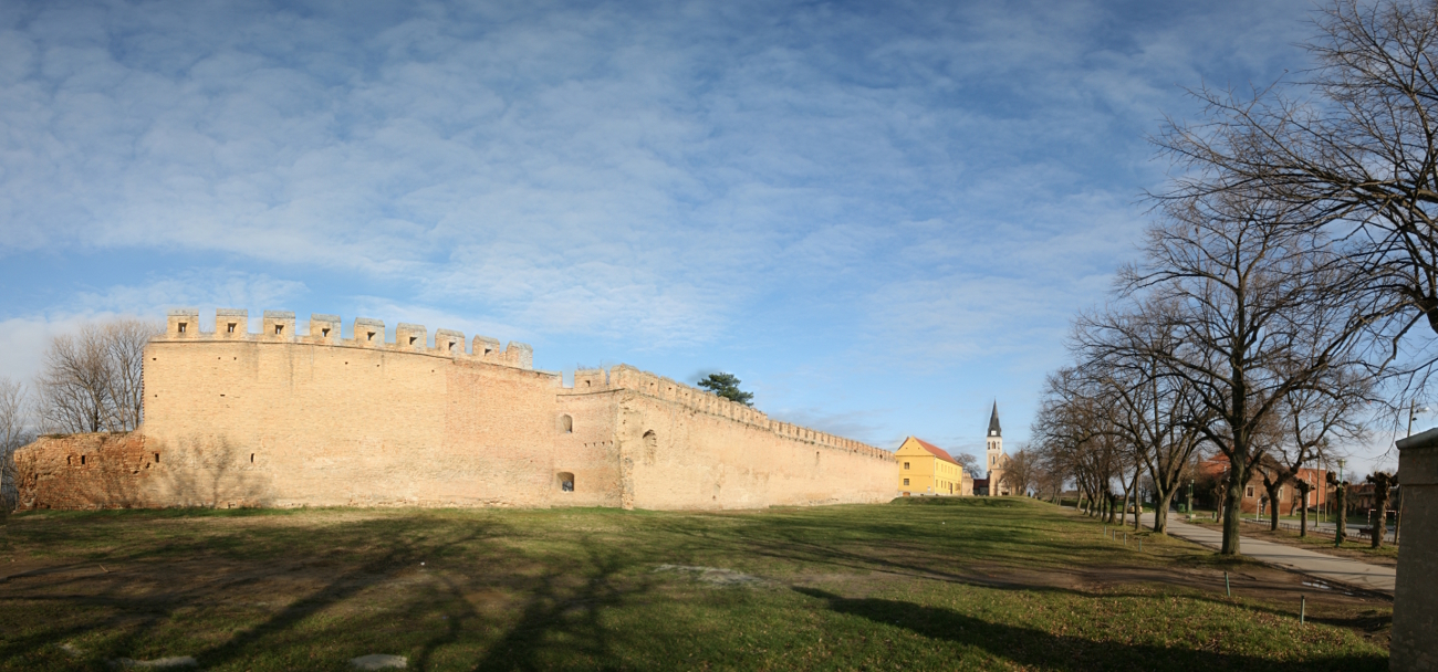 Walls of the Ilok Castle